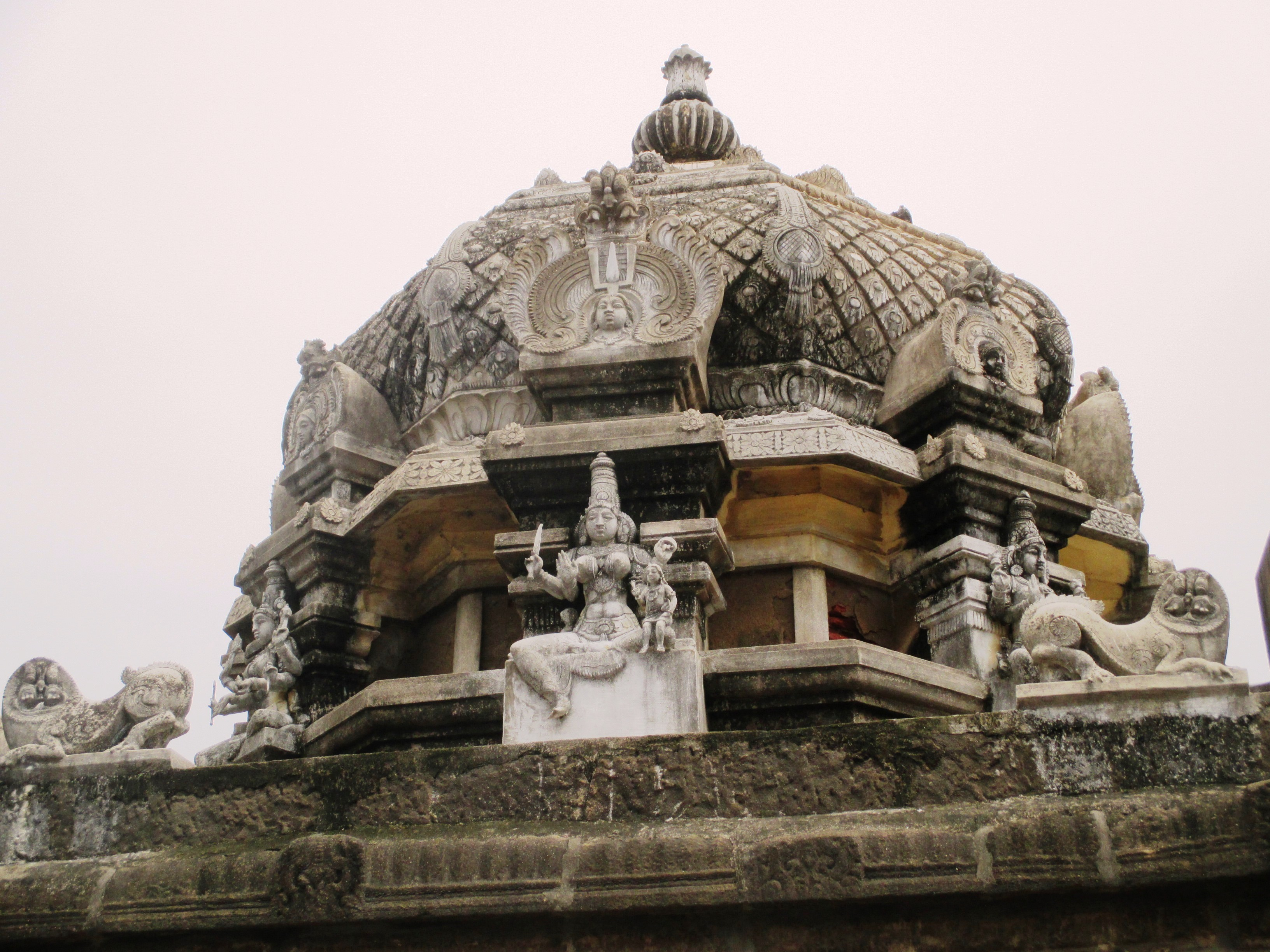 Pandava Thoothar Perumal Temple